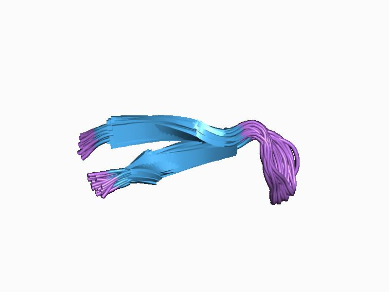 Cartoon representation of the molecular structure of protein registered with 1b03 code.